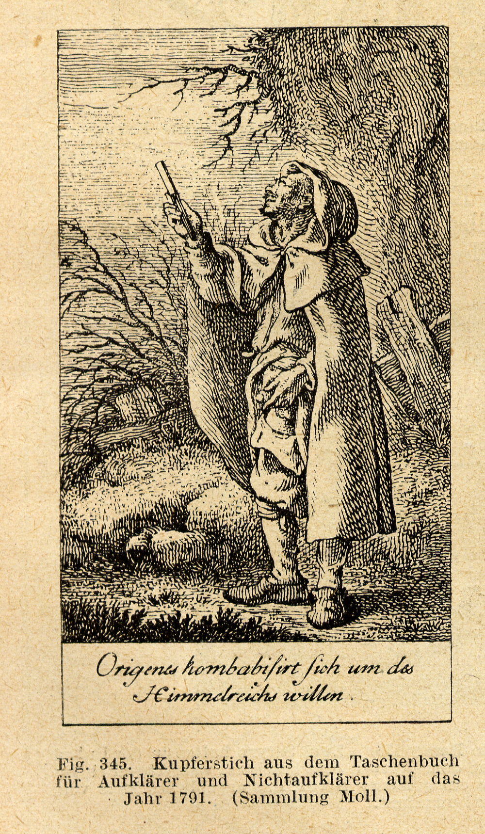 From the book: Albert Moll, Handbuch der Sexualwissenschaften, Verlag Von F.C. Vogel, Leipzig 1921. Picture by Stefano Bolognini.